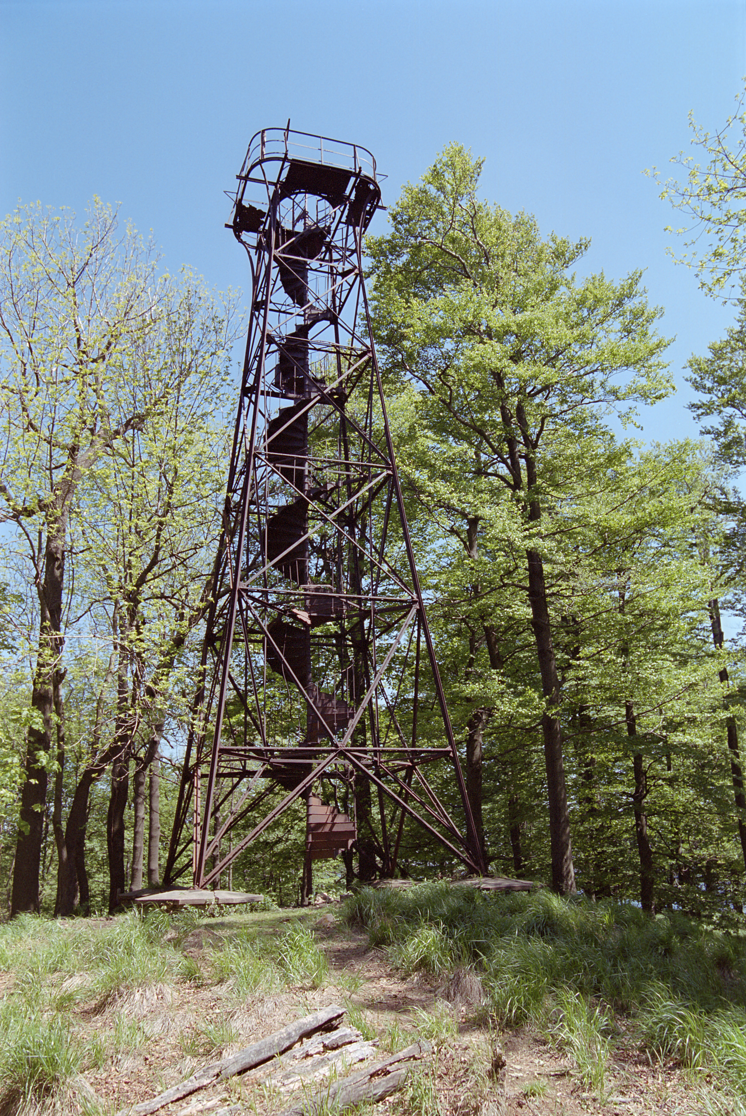 look-out tower at the Czech mountain Studenec